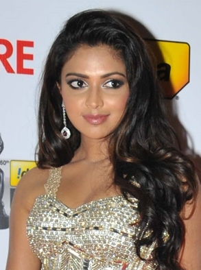 Amala Paul at 60th South Filmfare Awards 2013